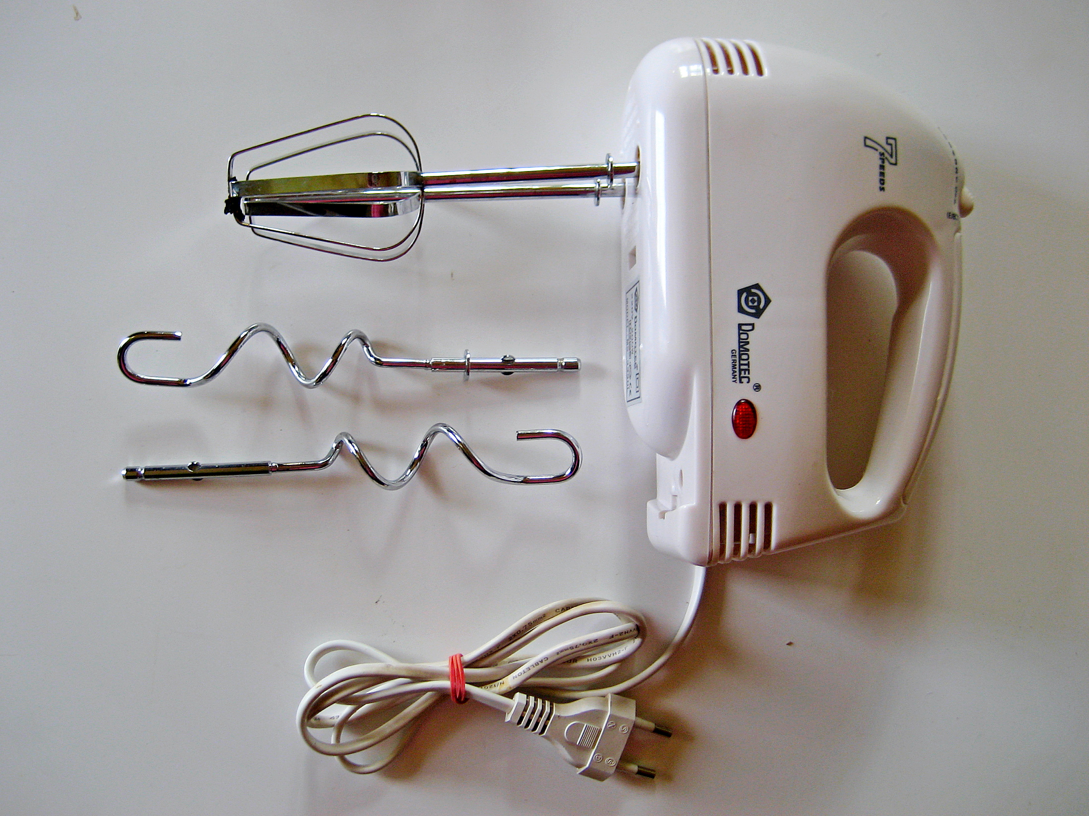 Mixer «Domotec»